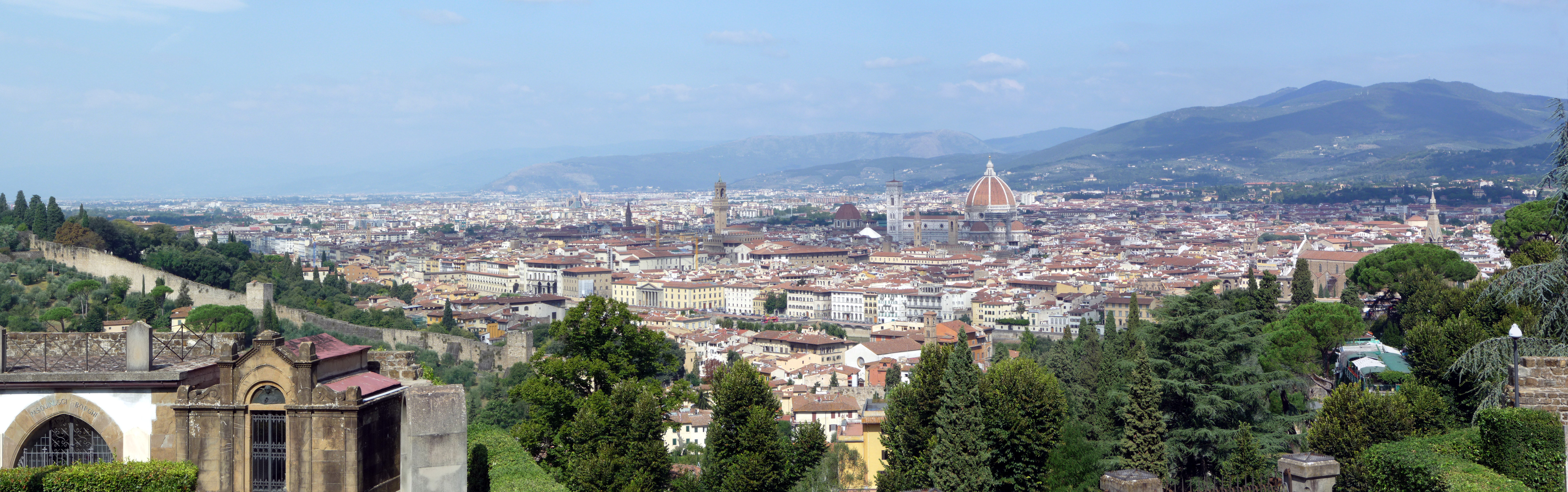 View of Florence (Italy) from Church San Miniato a Monte